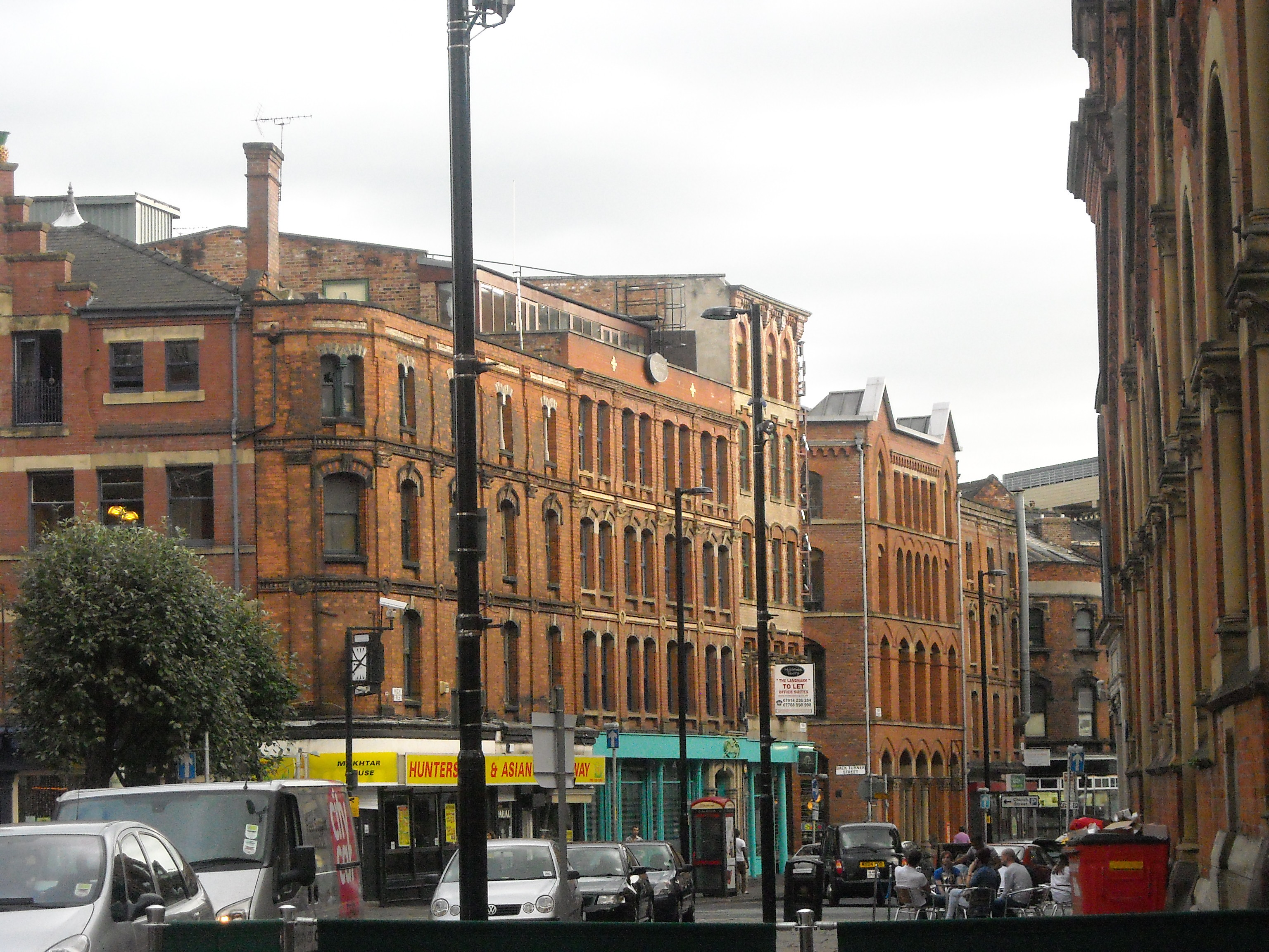 Taken during the Flickr Meet, this is the penulitmate pic I have taken during the meet at Sweet Mandarin